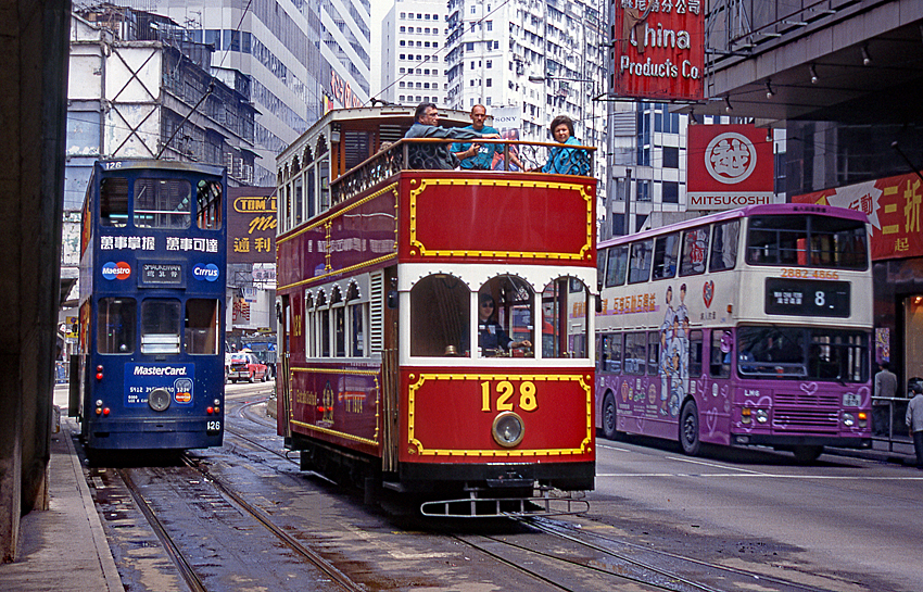 Hong Kong open balcony tourist tram 128 on sightseeing tour. Passing tram 126. Scanned from a Fujichrome 35mm slide.